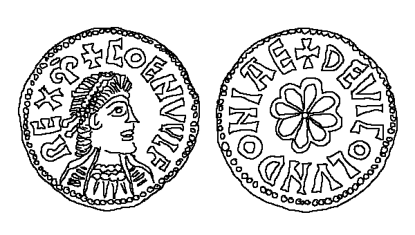 Free-hand drawing of the Coenwulf mancus, a gold coin of the early 9th century, after a photograph at [1] (BM inv. nr. 2006,0204.1). The obverse is inscribed COENUULF REX, the reverse DEVICOLUNDONIAE (viz. de vico Lundoniae). The coin was found 2001, in Biggleswade, Bedfordshire and was acquired by the BM in 2006. Weight: 4.33 g, diameter: 20 mm. This is the only known gold coin of Coenwulf (r. 796-821), and one of only eight known British gold coins of the period 700-1250. The coin was minted in London, and has seen little or no circulation, as it was probably lost shortly after it was issued. The similarity to a solidus of Charlemagne inscribed vico Duristat (i.e. Dorestad; BM nr. G3,FrGC.10 [Coins & Medals, George III collection, French nr. 10]) has been taken to suggest that the two coins reflect a rivalry between the two kings, although it is unknown which coin has priority (Williams 2008). Literature: Gareth Williams, Early Anglo-Saxon Coins (2008), 43–45. John Blair, Building Anglo-Saxon England (2018), p. 230. on the Carolingian solidus: K.F. Morrison, H. Grunthal, Carolingian Coinage" ,Numism. Notes a. Monographs 158 (1967), p. 180, n° 643; Ph. Grierson, "Money and Coinage under Charlemagne" in: Karl der Grosse I (1966), p. 533.